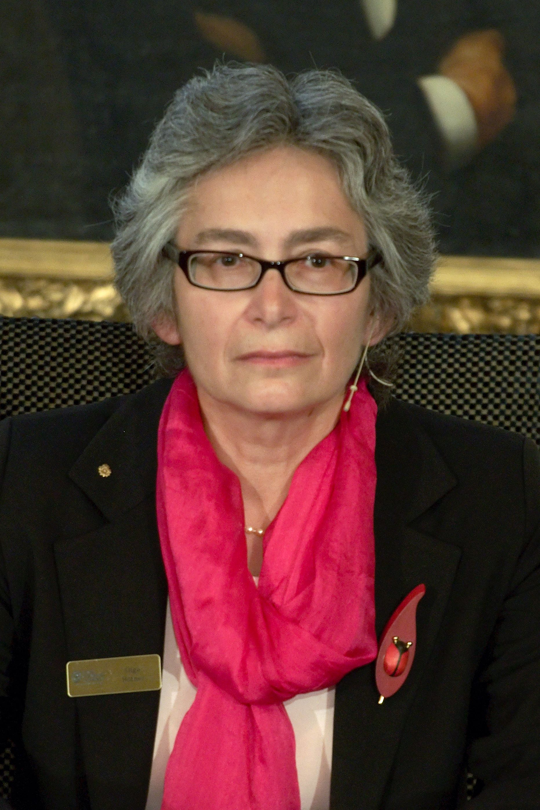 Announcement of the Nobelprize in Physics 2011